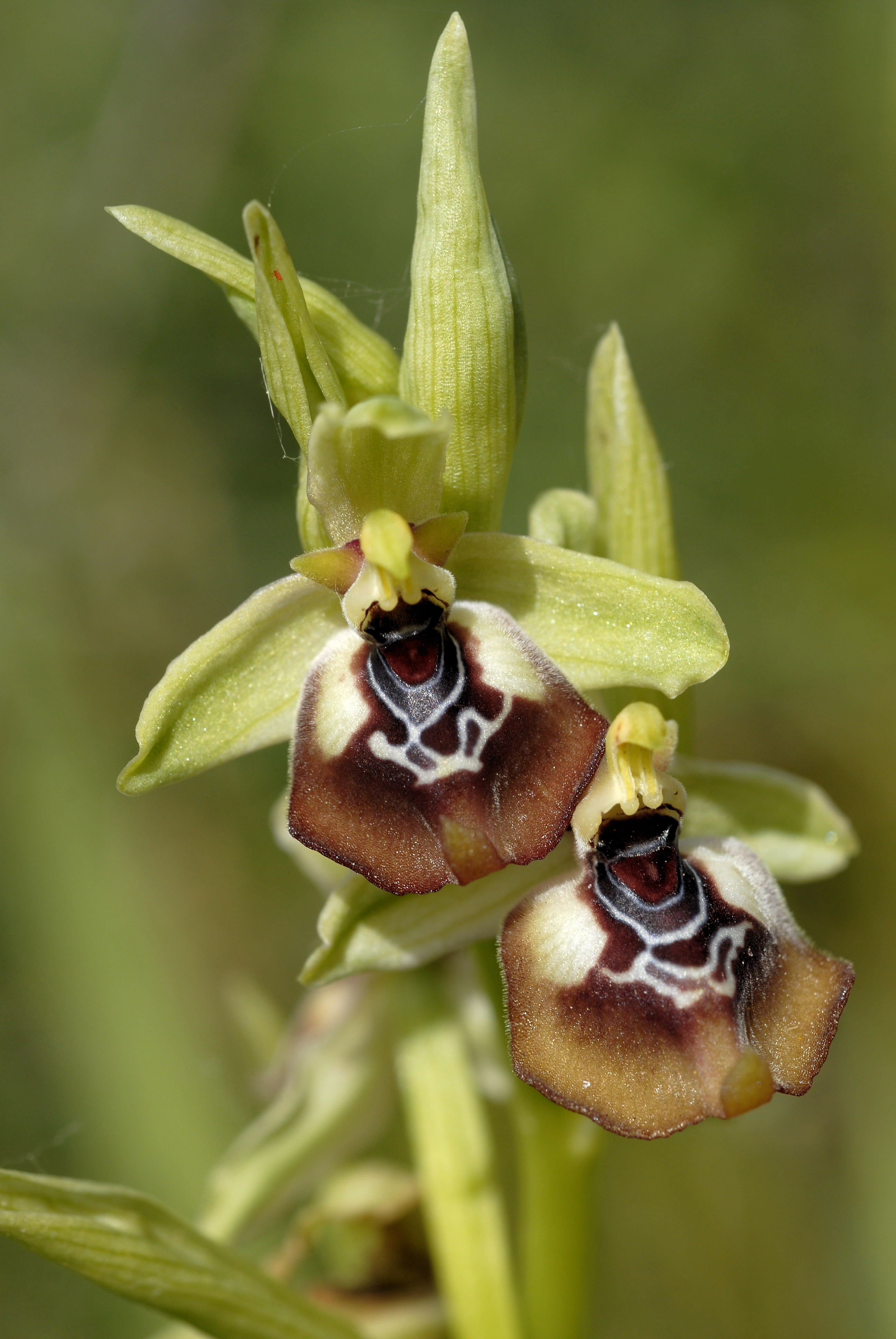 Ophrys oxyrrhynchos near Niscemi